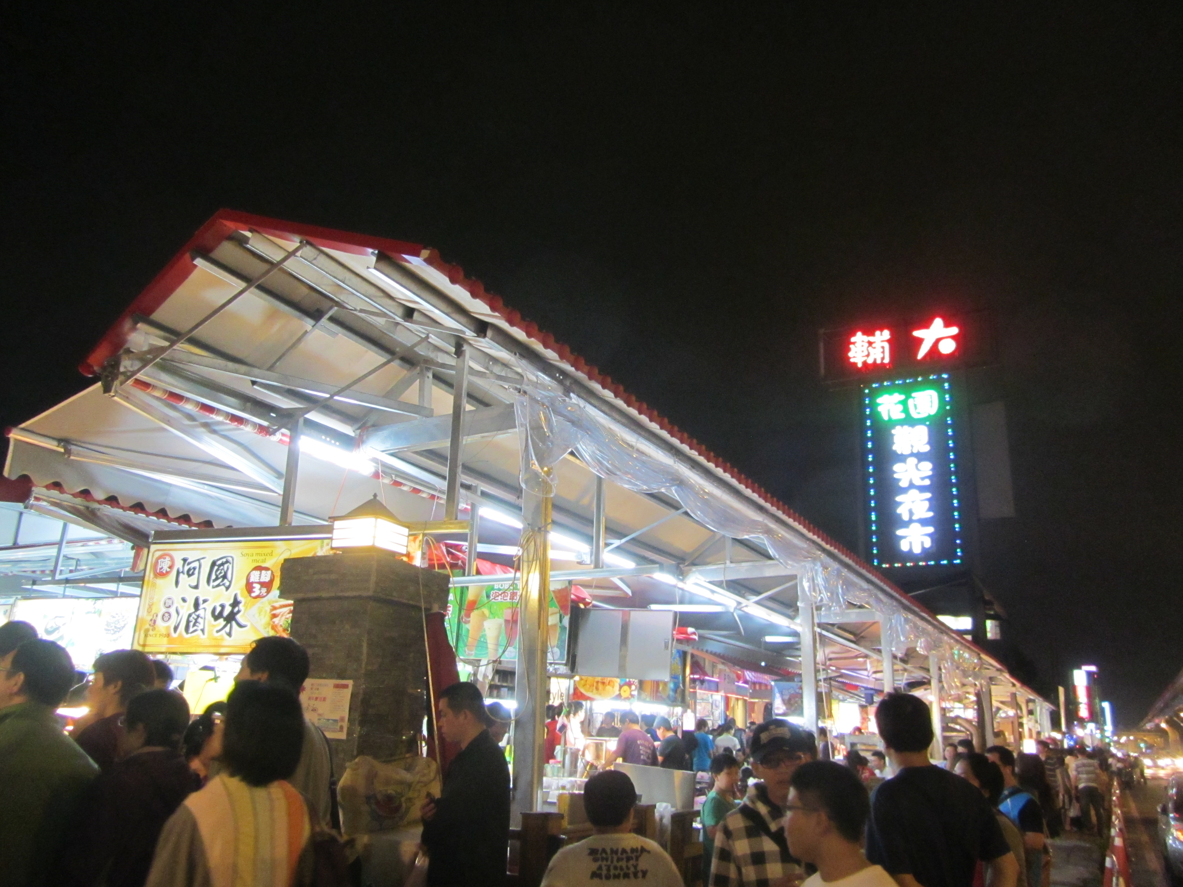 Fuda Flowers Night Market